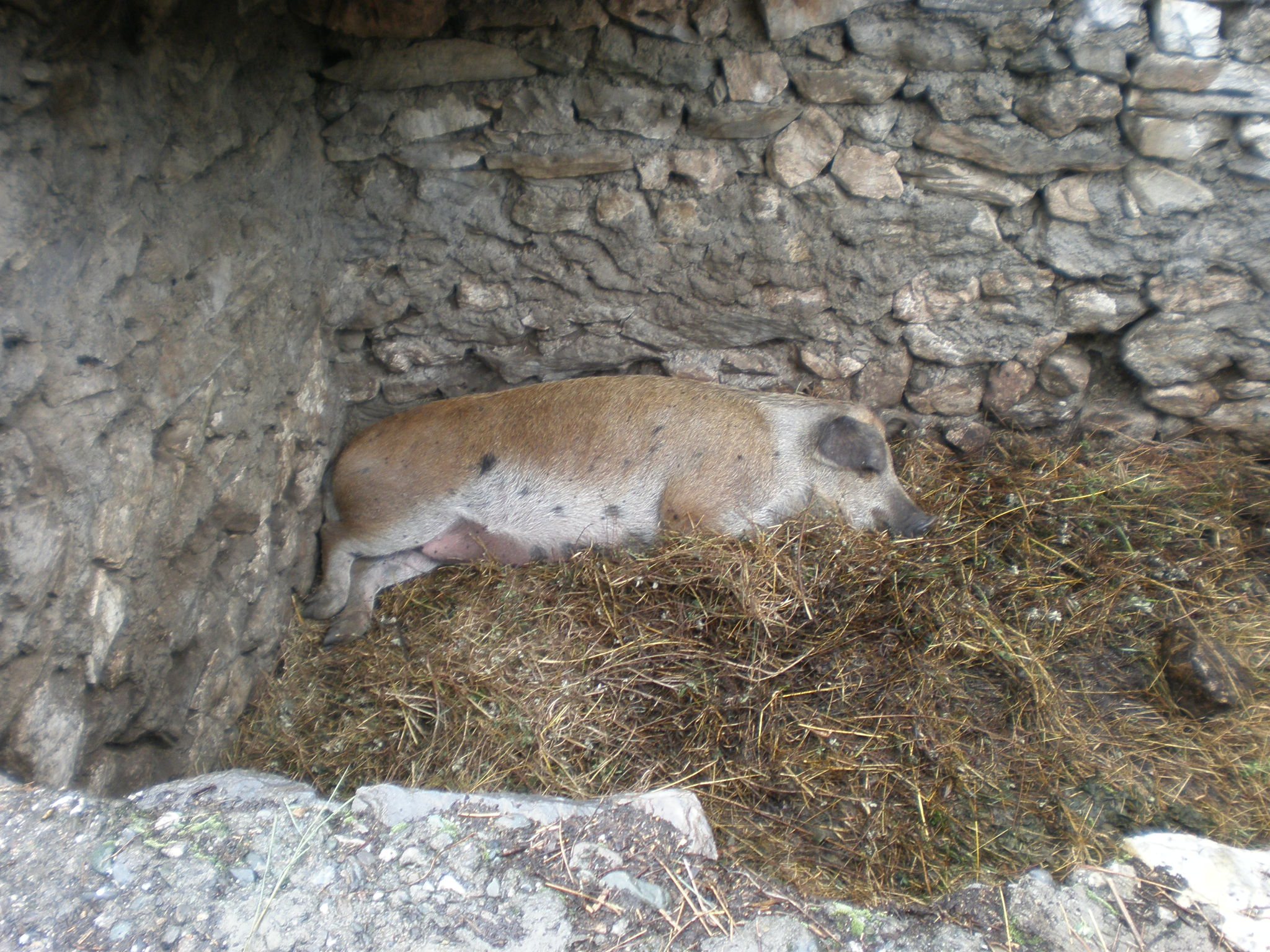 A pigsty located in the village of Walnut Grove, located at the northern end of Tiger Leaping Gorge in Yunnan, PRC.